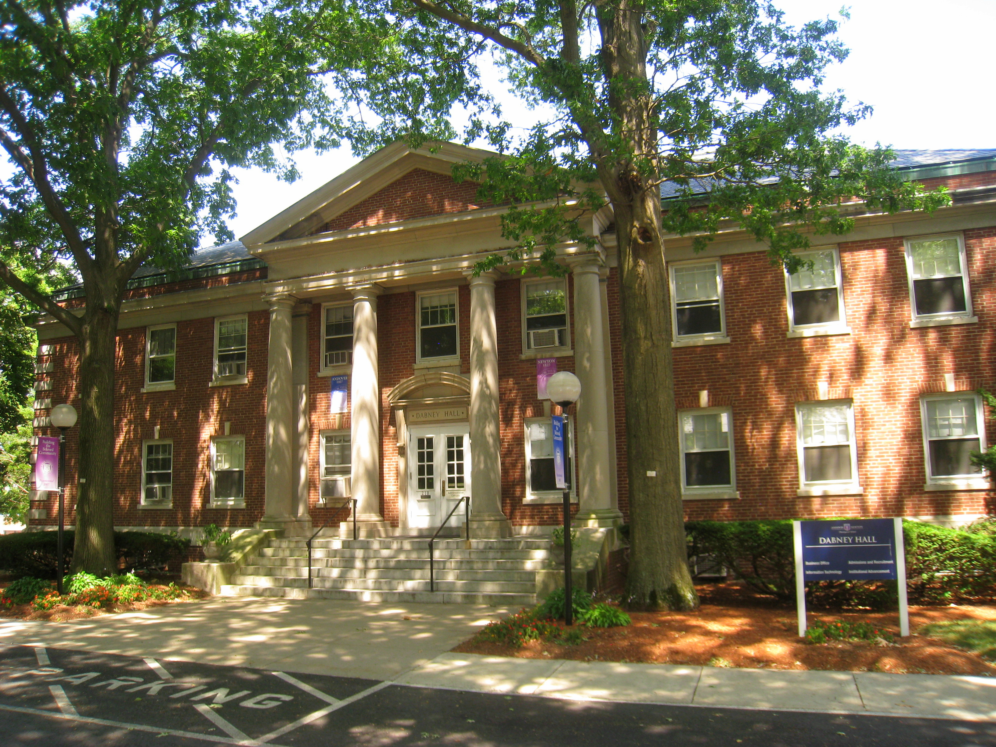 Dabney Hall, Andover Newton Theological School, 210 Herrick Road, Newton Centre, Massachusetts, USA.